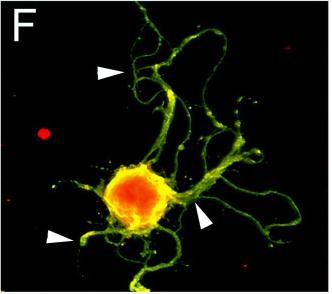 Aberrant neurite growth with disruption of neural actin cytoskeleton, imaged with a confocal microscope.